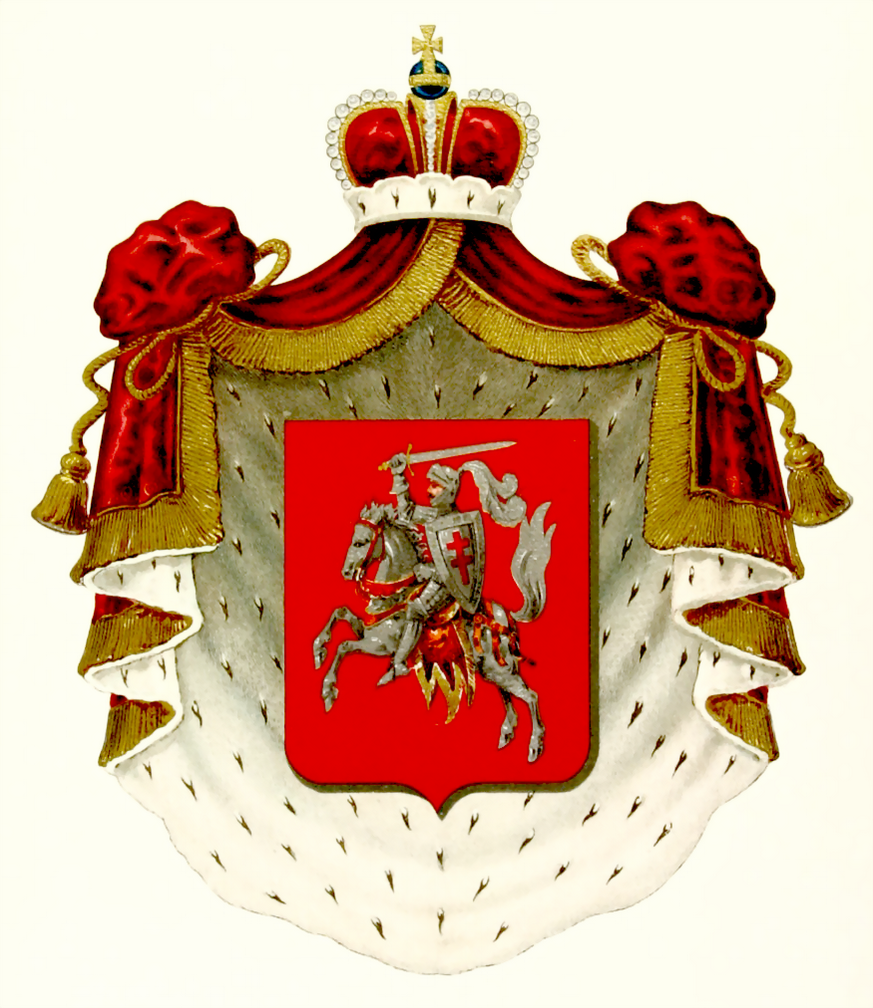 Coat of Arms of family Bielski